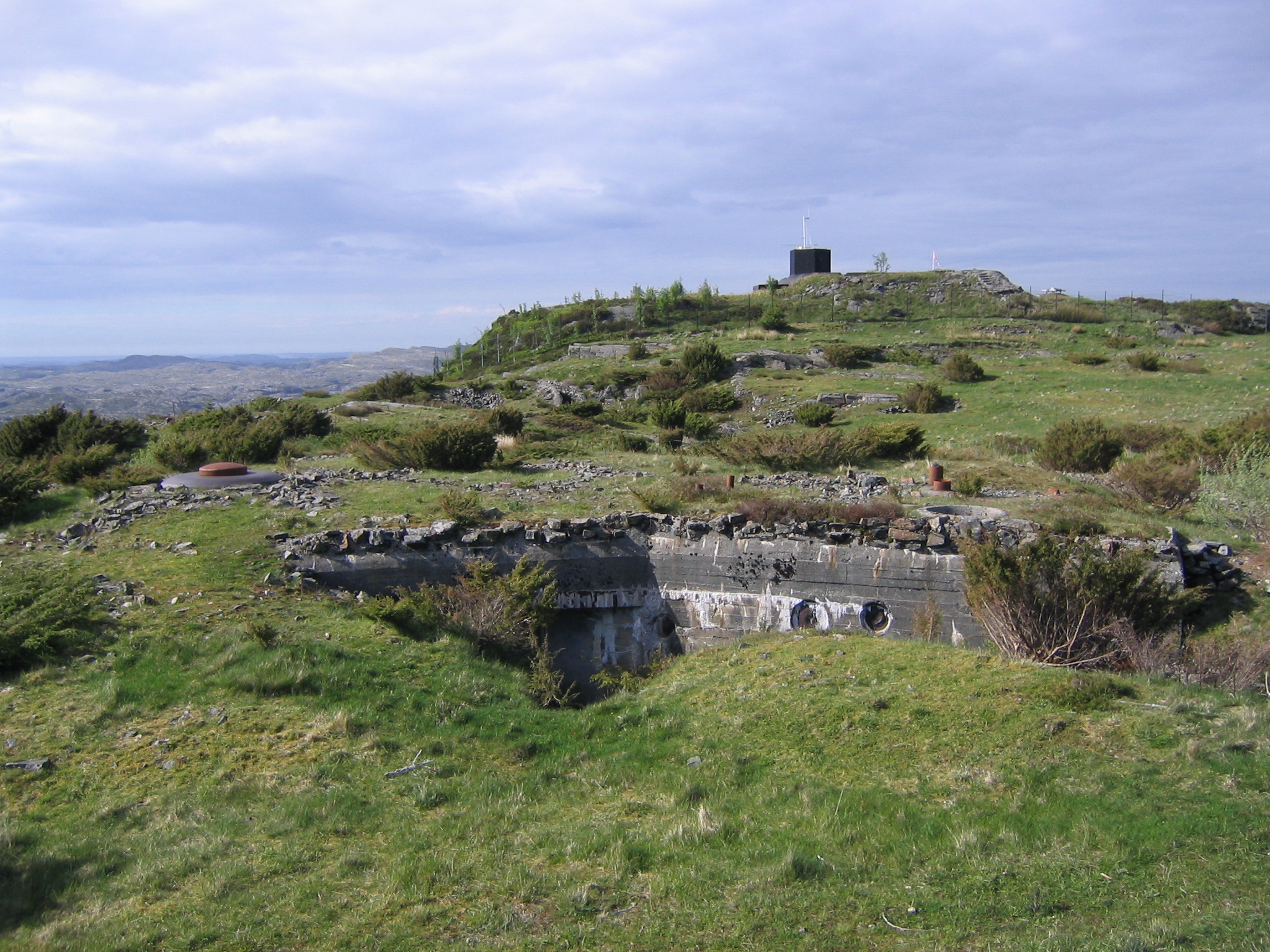 A view from Fjell Festning, showing, in front, a M19-bunker, (known as R633), and in the background a S446 can be seen (with the black "stub" on top). The S446 was a commando bunker, on which was placed a range- and directionfinder. This particular bunker was used after the war by the Norwegian Navy, as a radar station, so the black "stub" is not original, this was where the radar was placed until 2005.